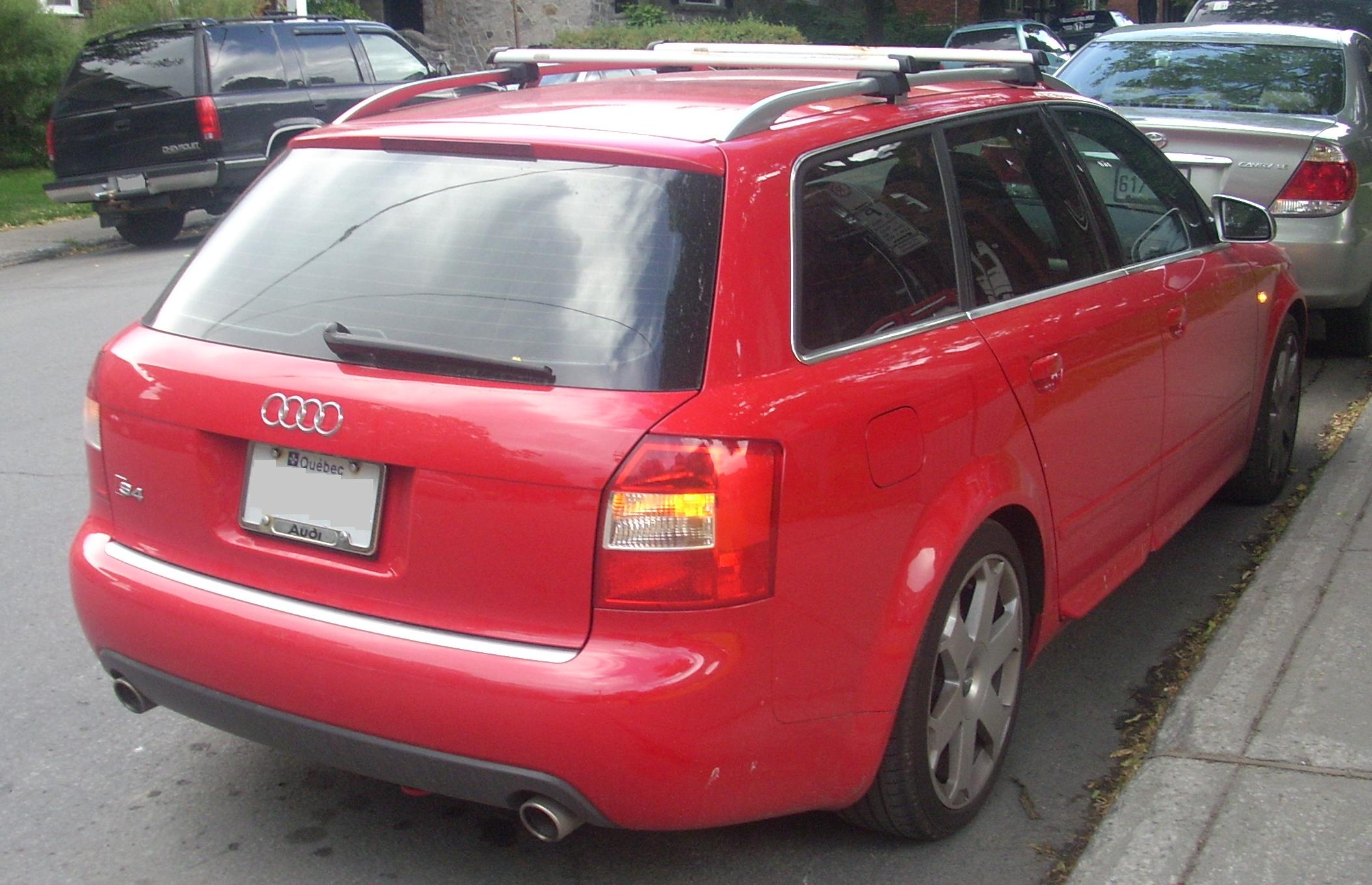 2000-2002 Audi B6 S4 Avant photographed in Montreal, Quebec, Canada.